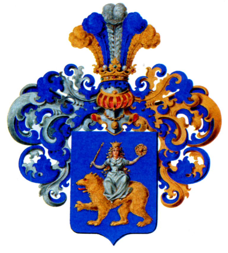 Coat of Arms of Kaniowski family